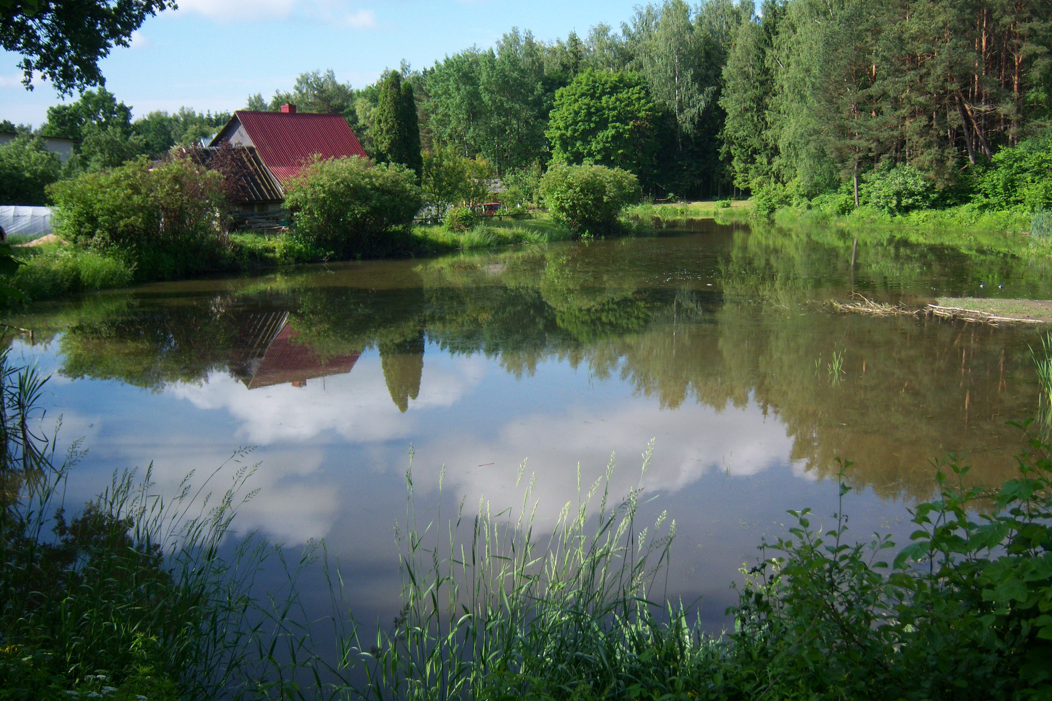 Little pond on Lapienė River near Radikiai and Neris River, Kaunas district. Lithuania